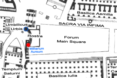 Plan of Roman Forum with the Milliarium Aureum in Red and the Umbilicus Urbis in Blue.